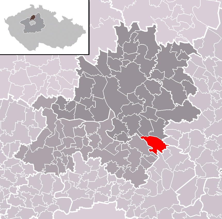 Location of Čečelice municipality within Mělník District and administrative area of Mělník as a Municipality with Extended Competence.